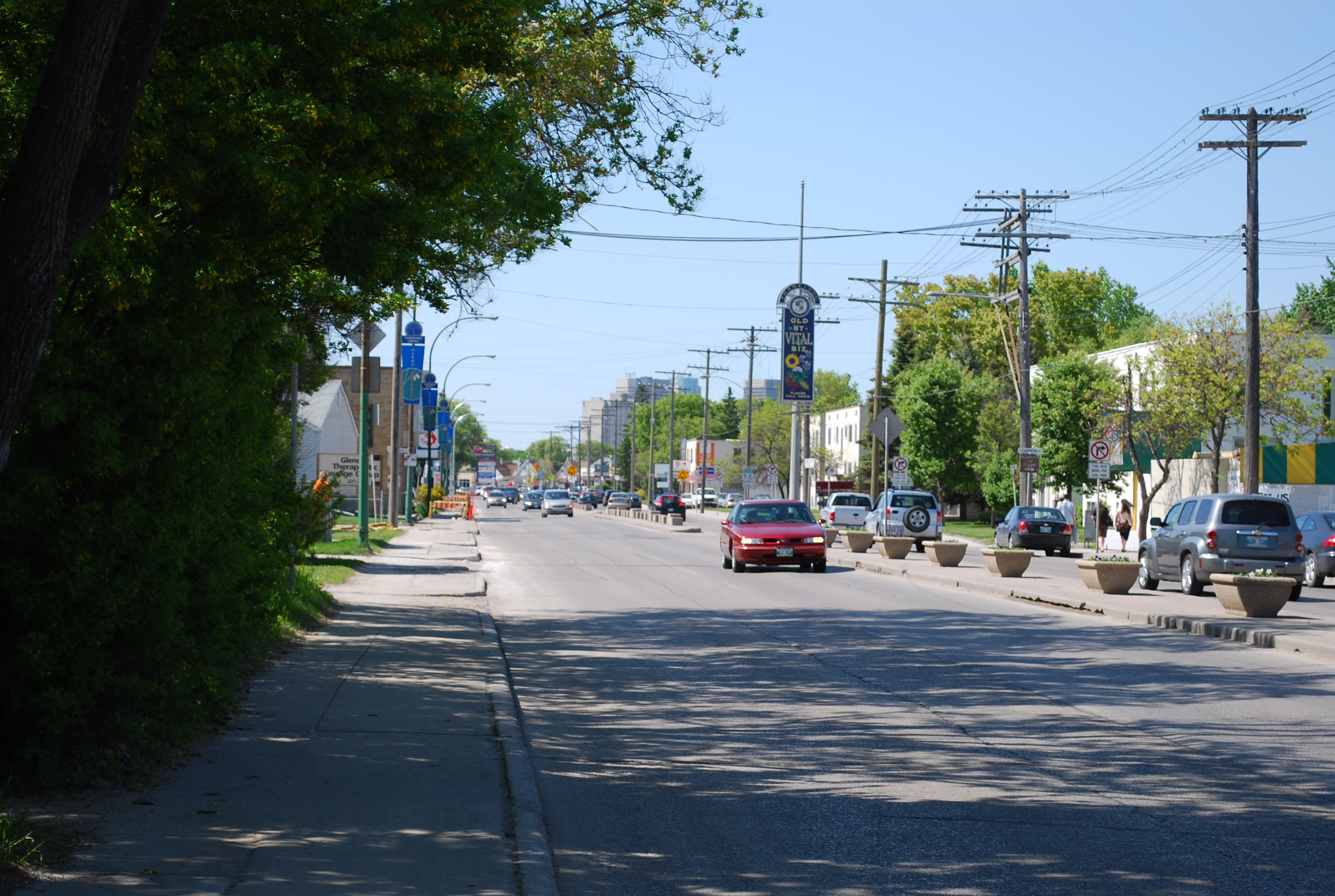 St. Mary's Road at Carriere Avenue, Winnipeg, Canada, looking northbound